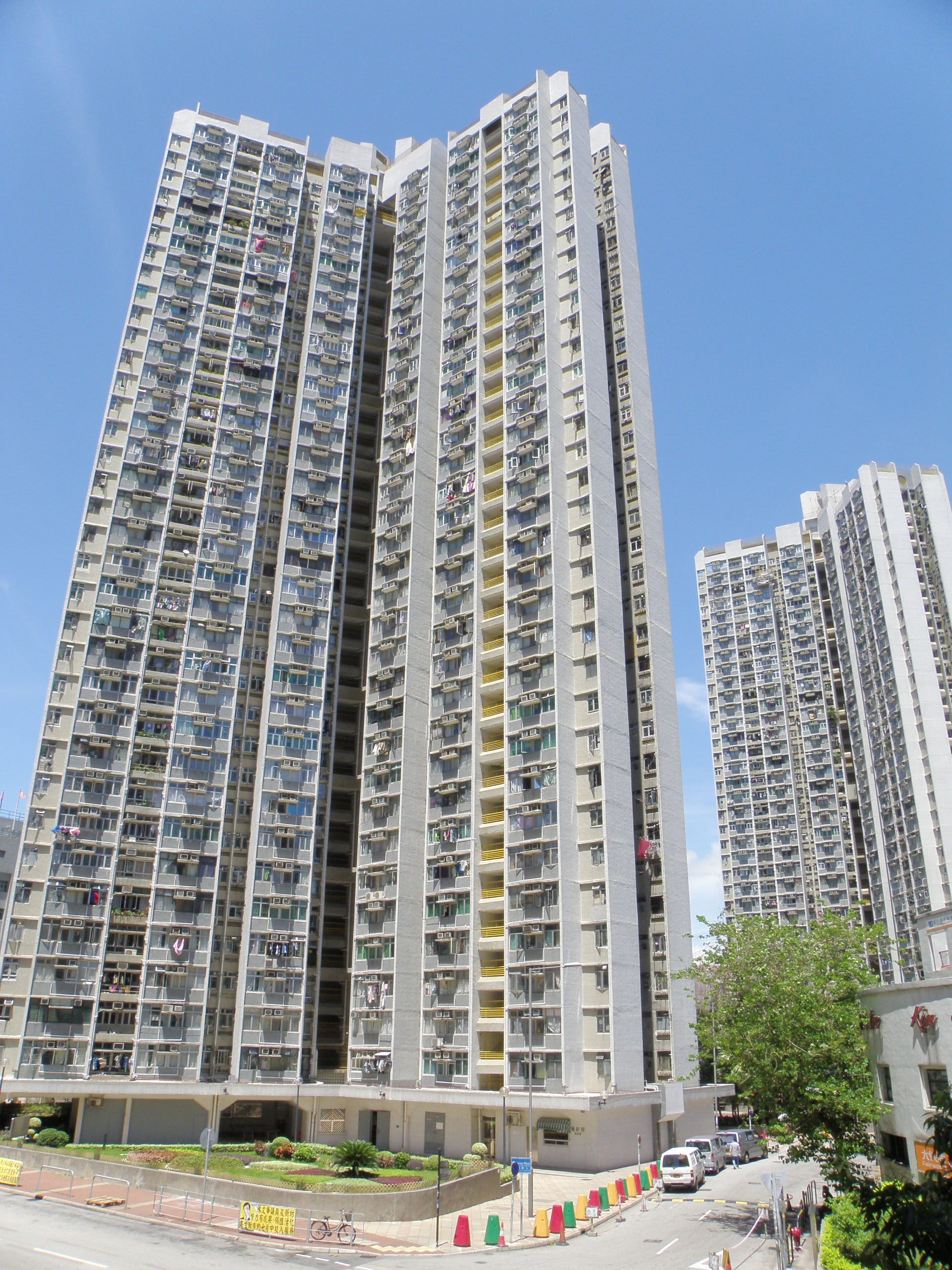 Siu Hin Court in Tuen Mun, Hong Kong.